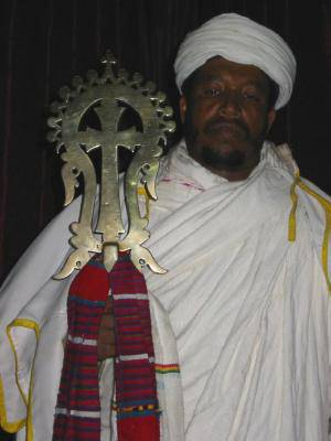 Ethiopian priest